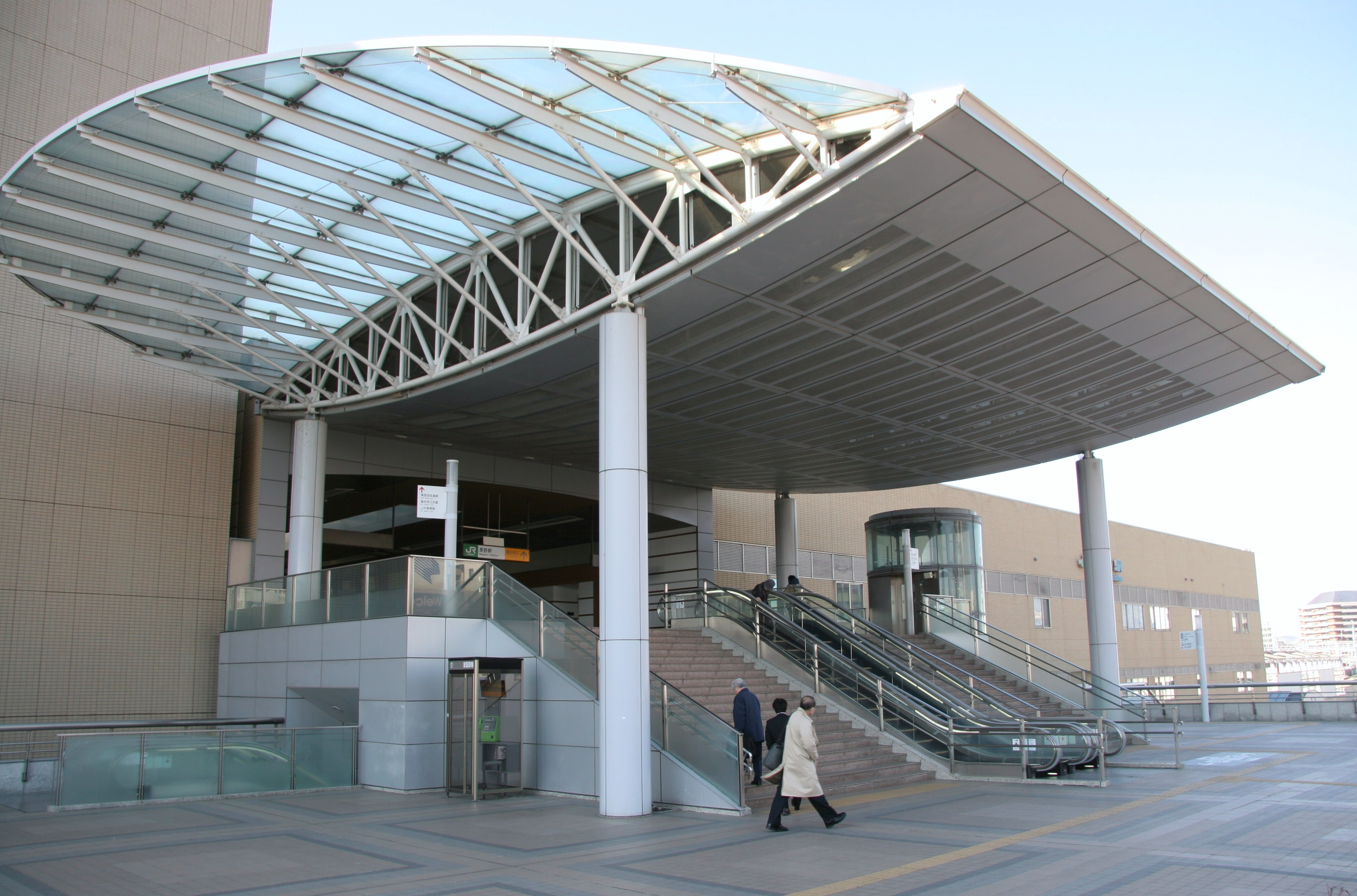 Nagano Station